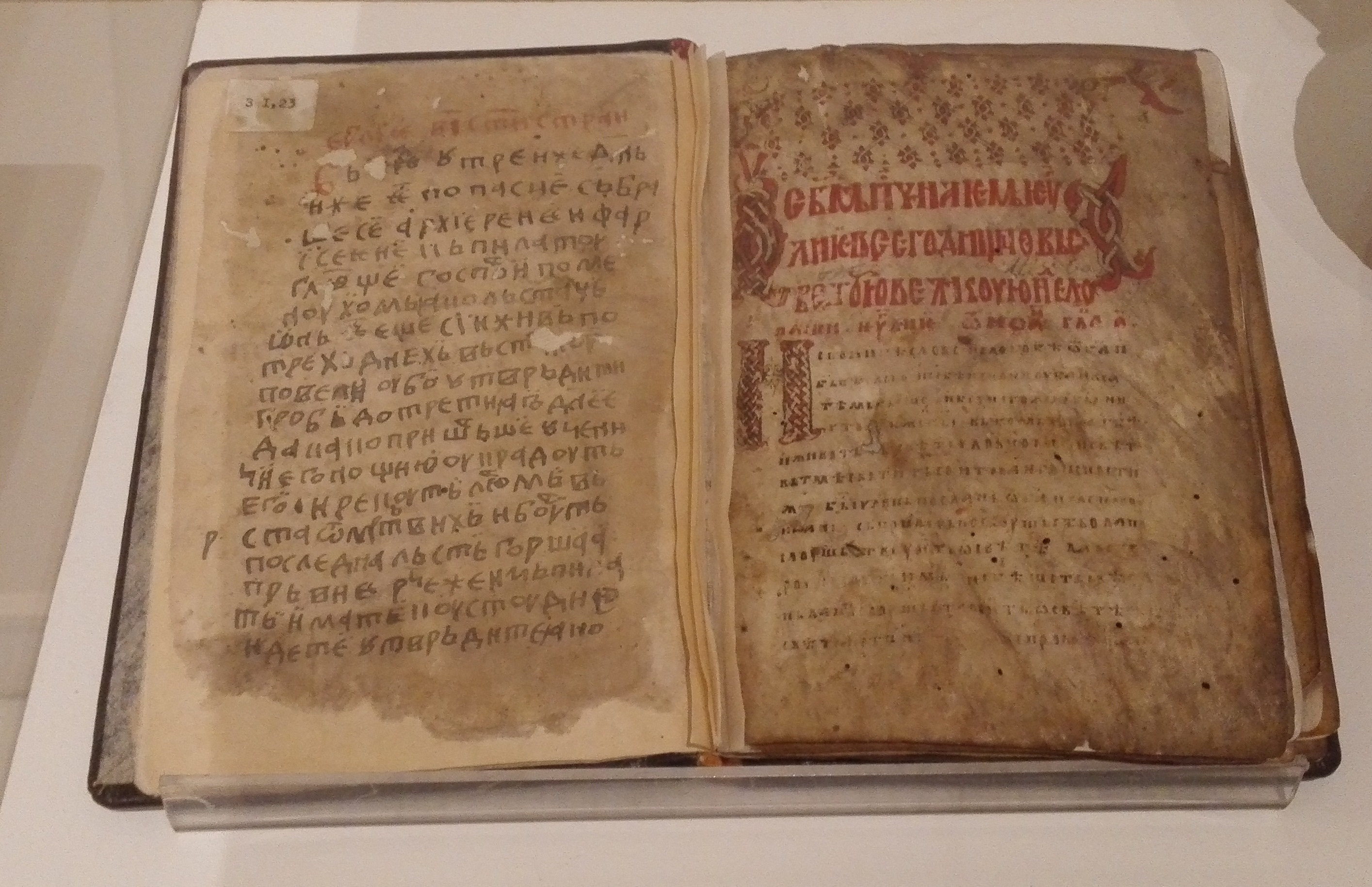 Evangelion, originated in Crkolez, mid 13th century. Belgrade, Museum of the Serbian Orthodox Church